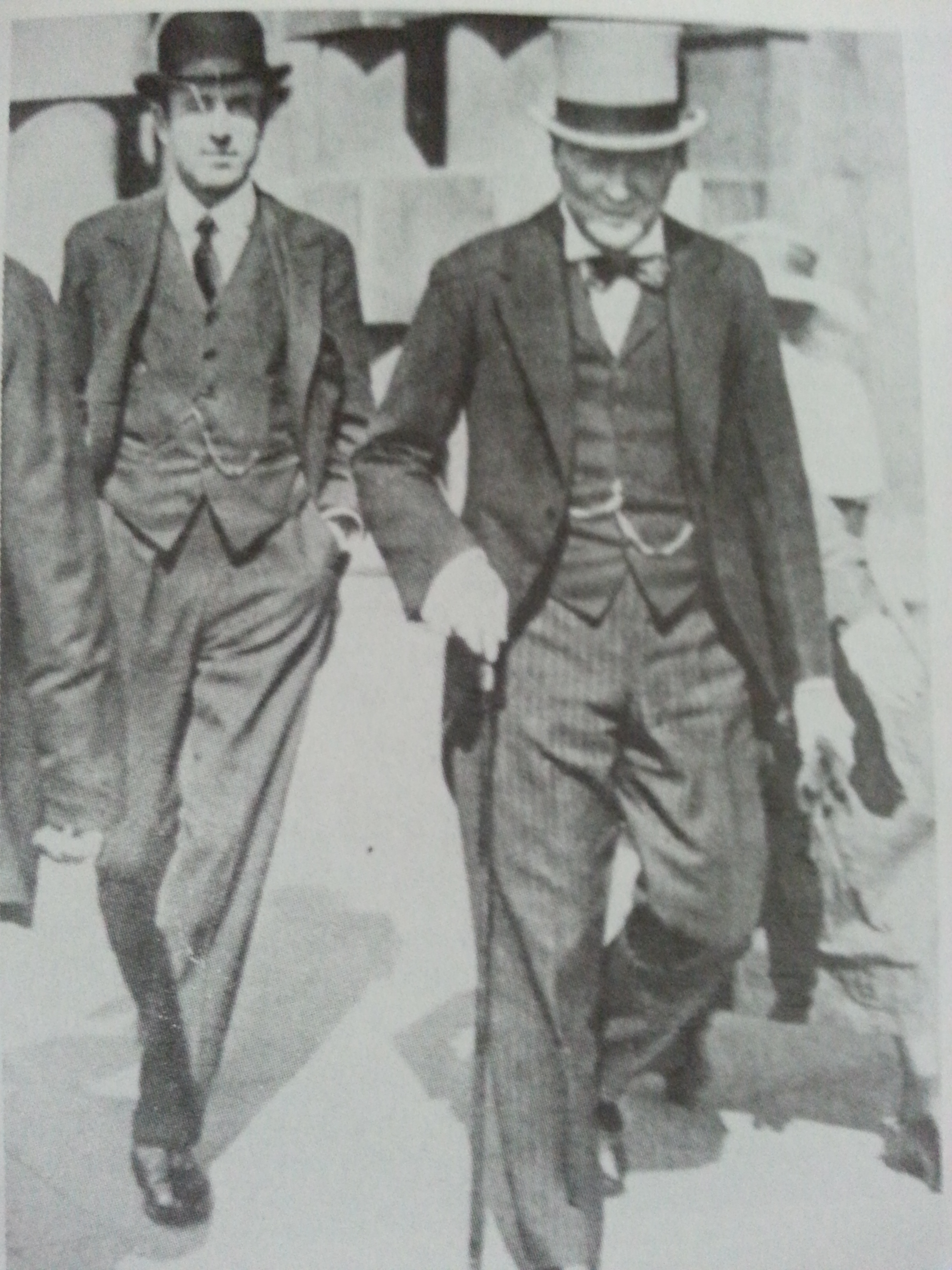 Churchill and his cousin lord Londonderry 1919